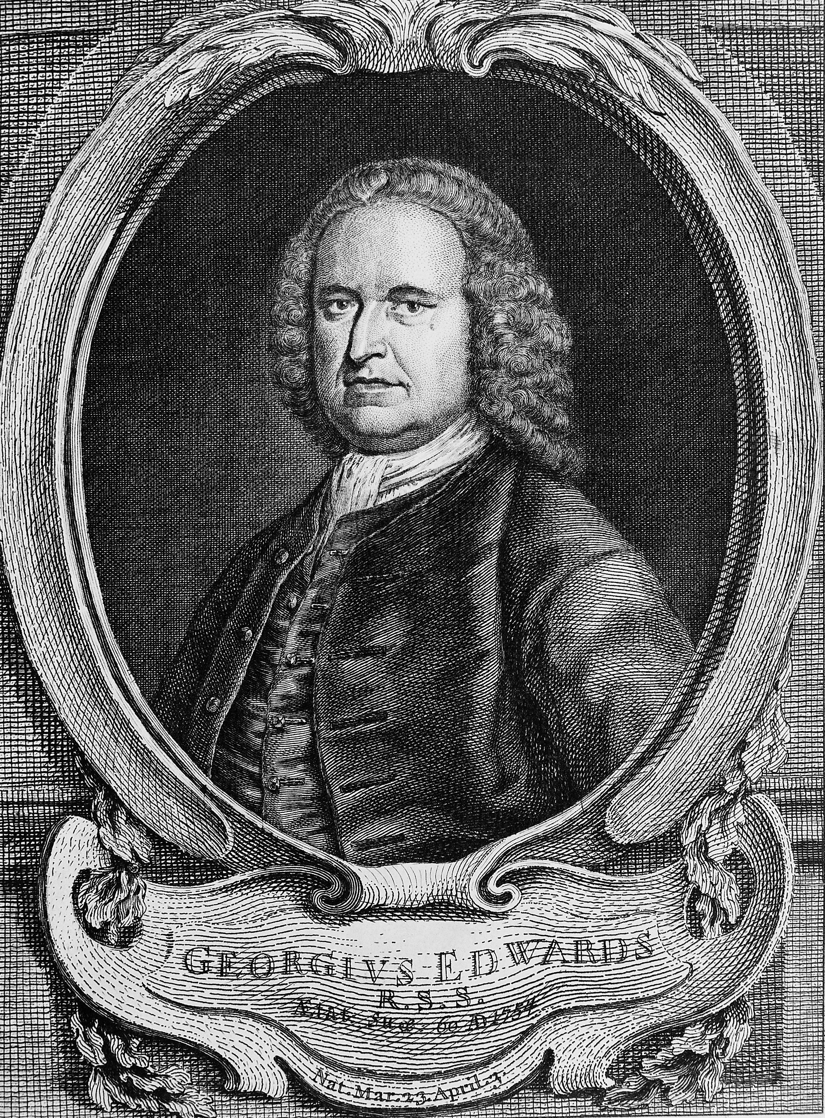 George Edwards (1693-1773)